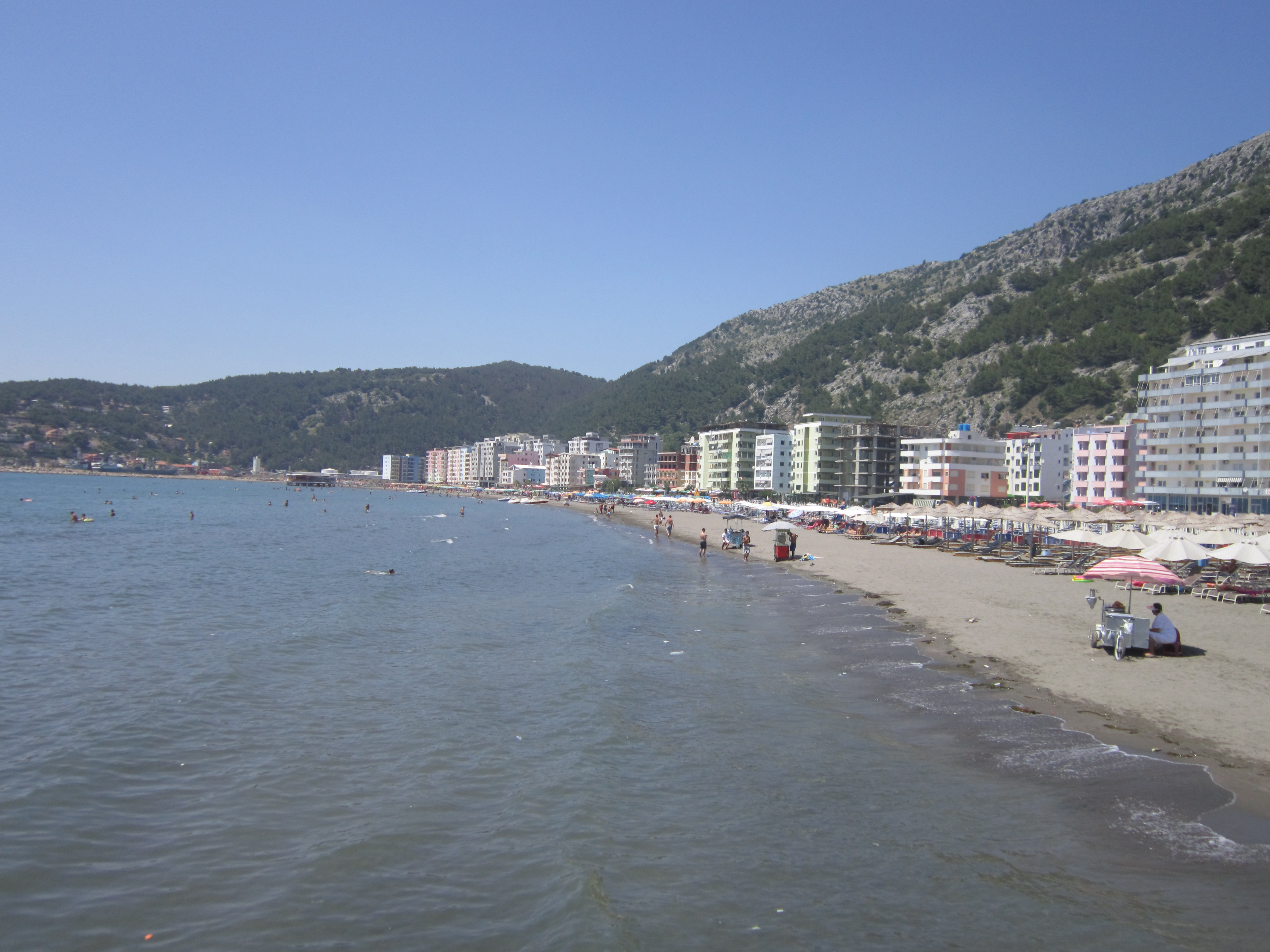 Photo of beach in shengjin facing north